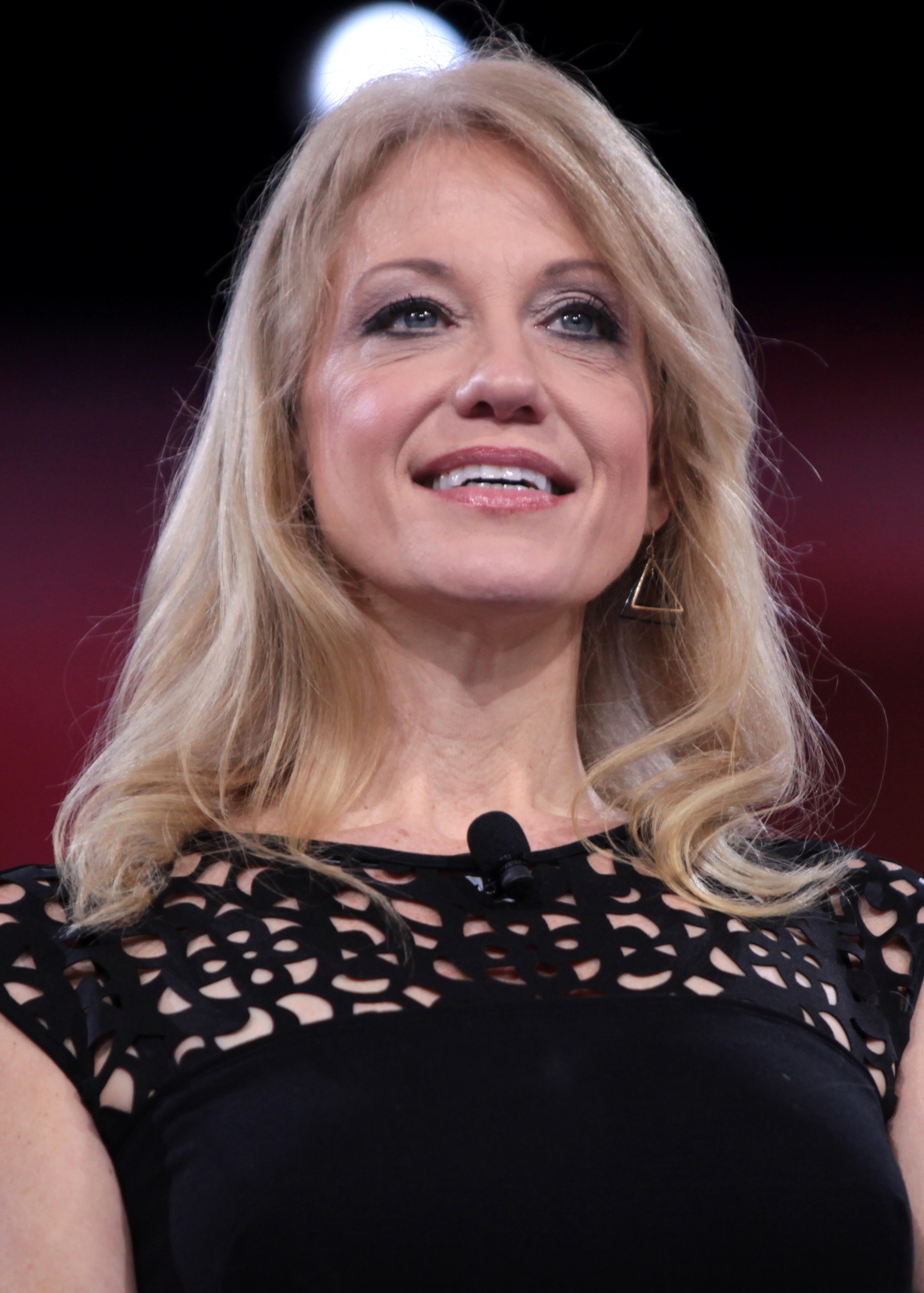 Kellyanne Conway speaking at CPAC 2016 in National Harbor, Maryland.